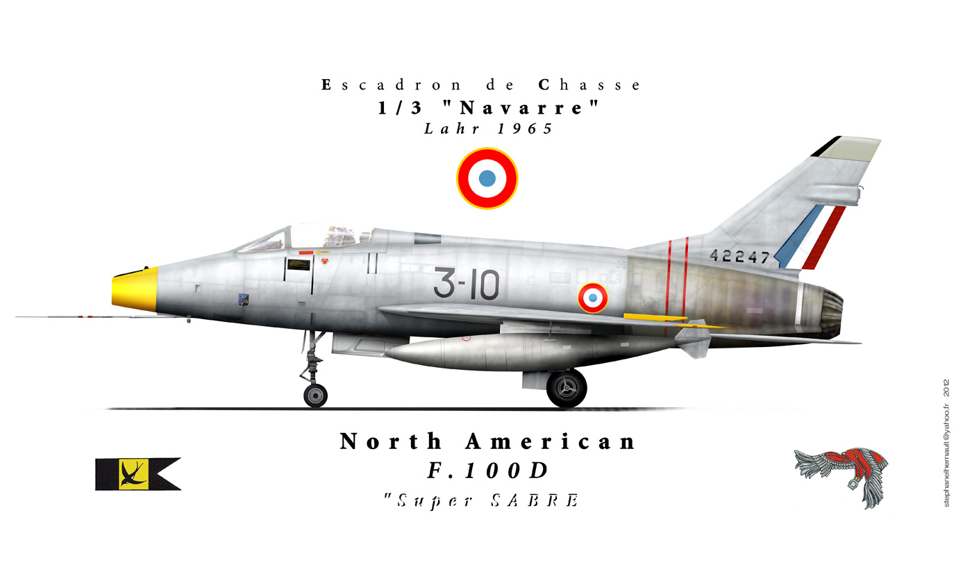 North American F-100D, EC 1/3 "Navarre", French Air Force.